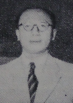 Raden Djuanda Kartawidjaja (1911-1963), 11th and last Prime Minister of Indonesia